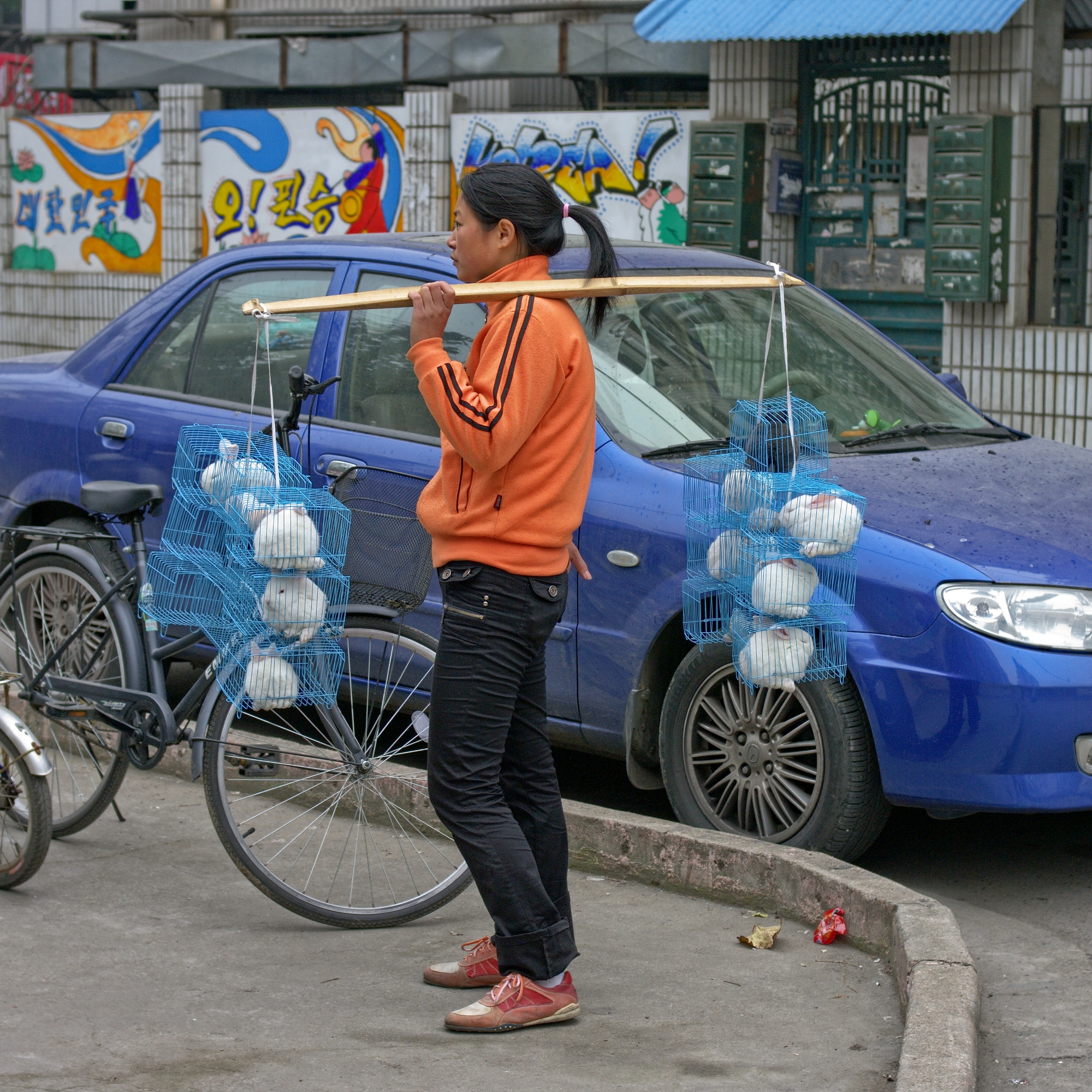 A Chinese young woman is selling rabbits in little cages. Street of Nanjing, South of China.